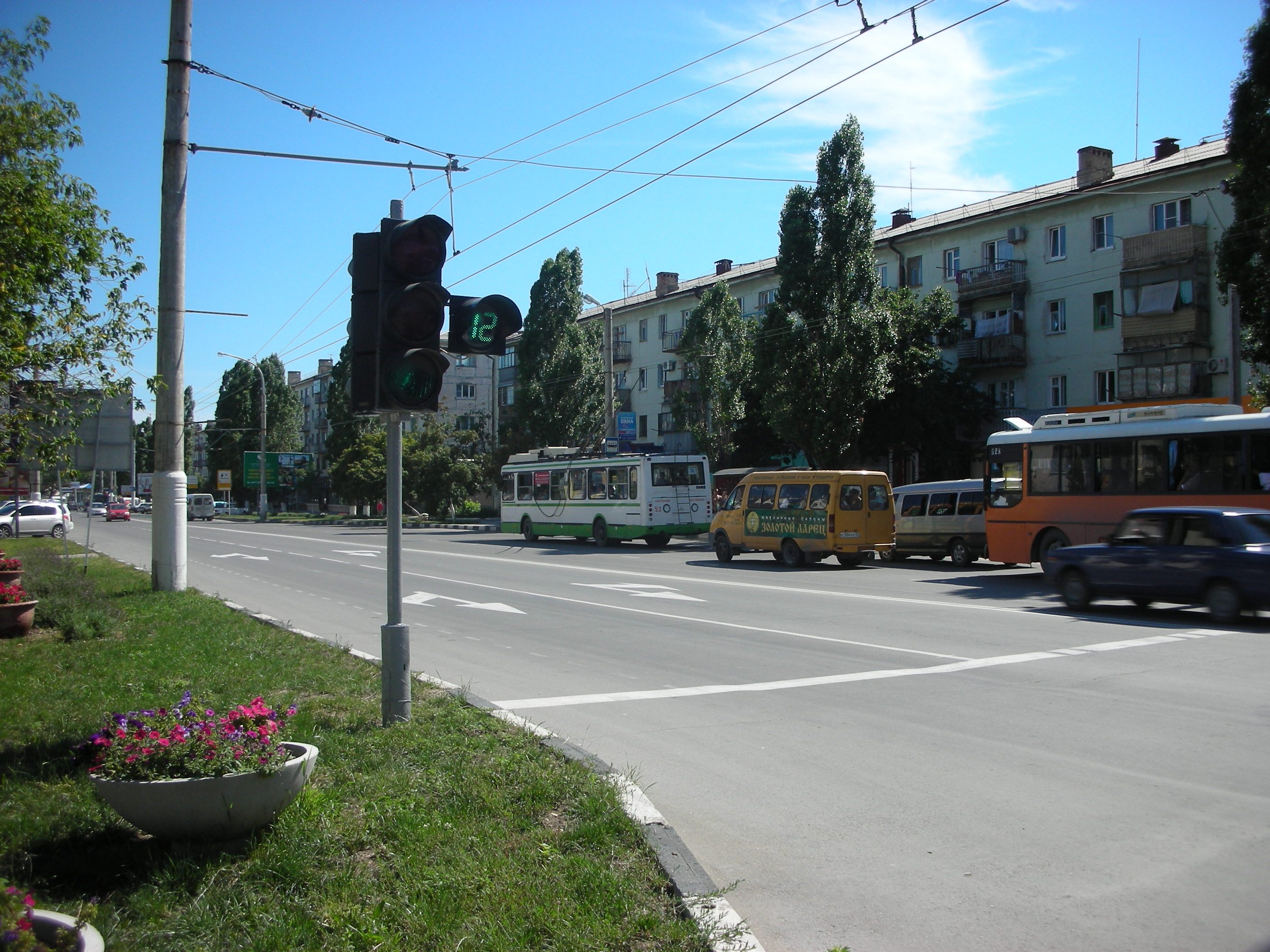 Lenina street Novorossiysk